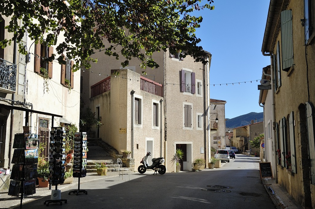 Cucugnan